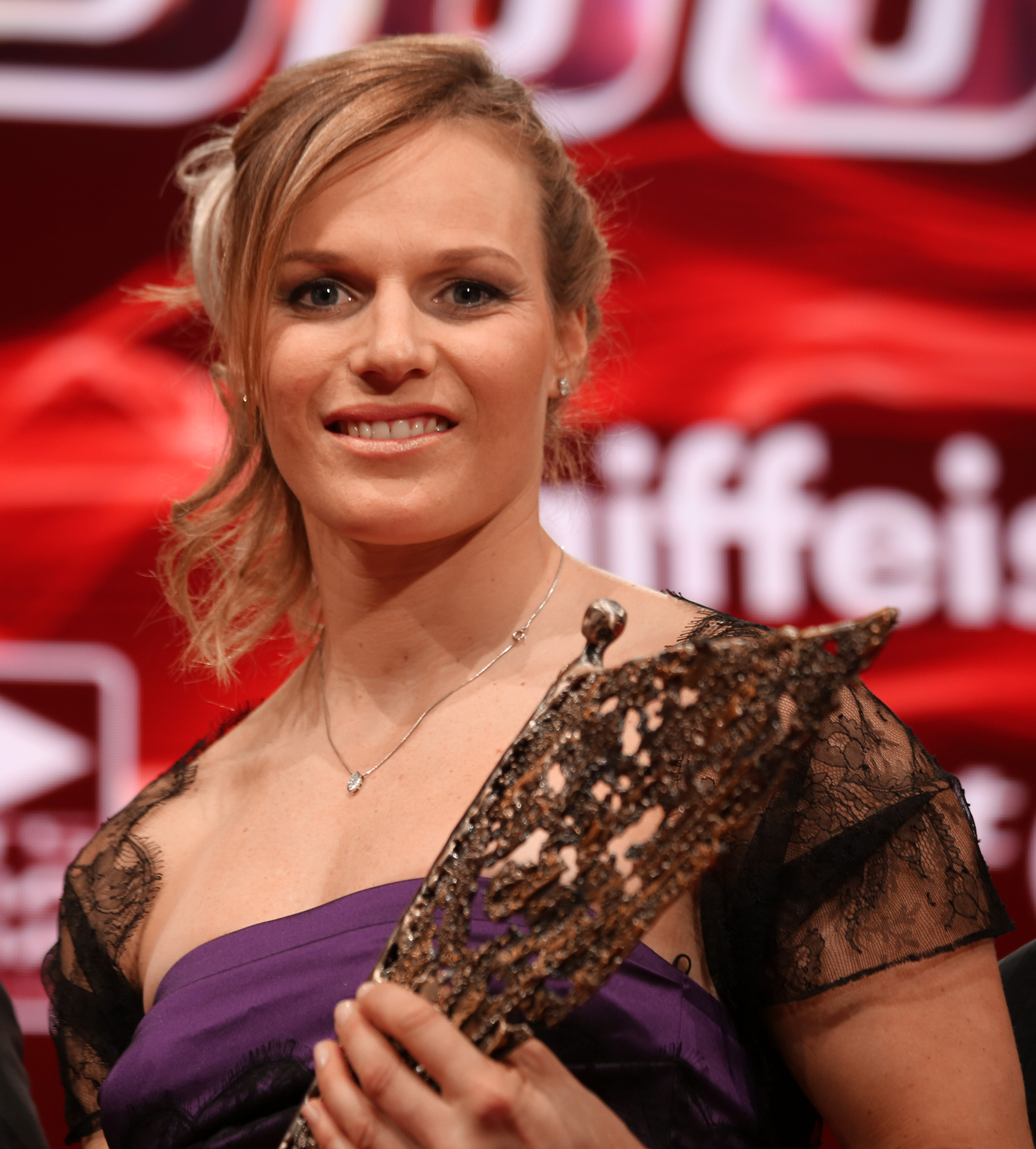 Marlies Schild: Austrian Sportsperson of the Year (female) 2012.